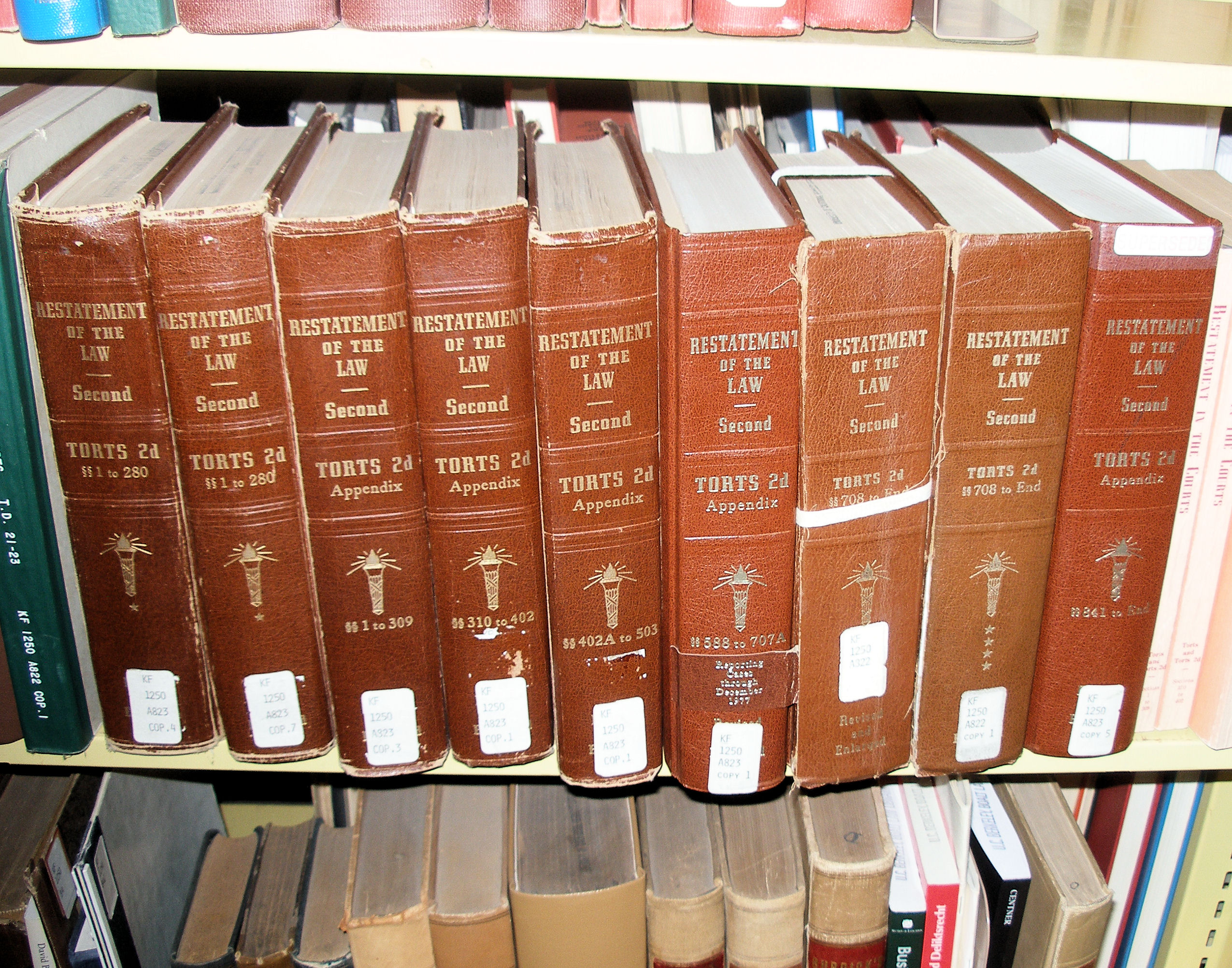 The Restatement of Torts at the law library of UC Berkeley School of Law.